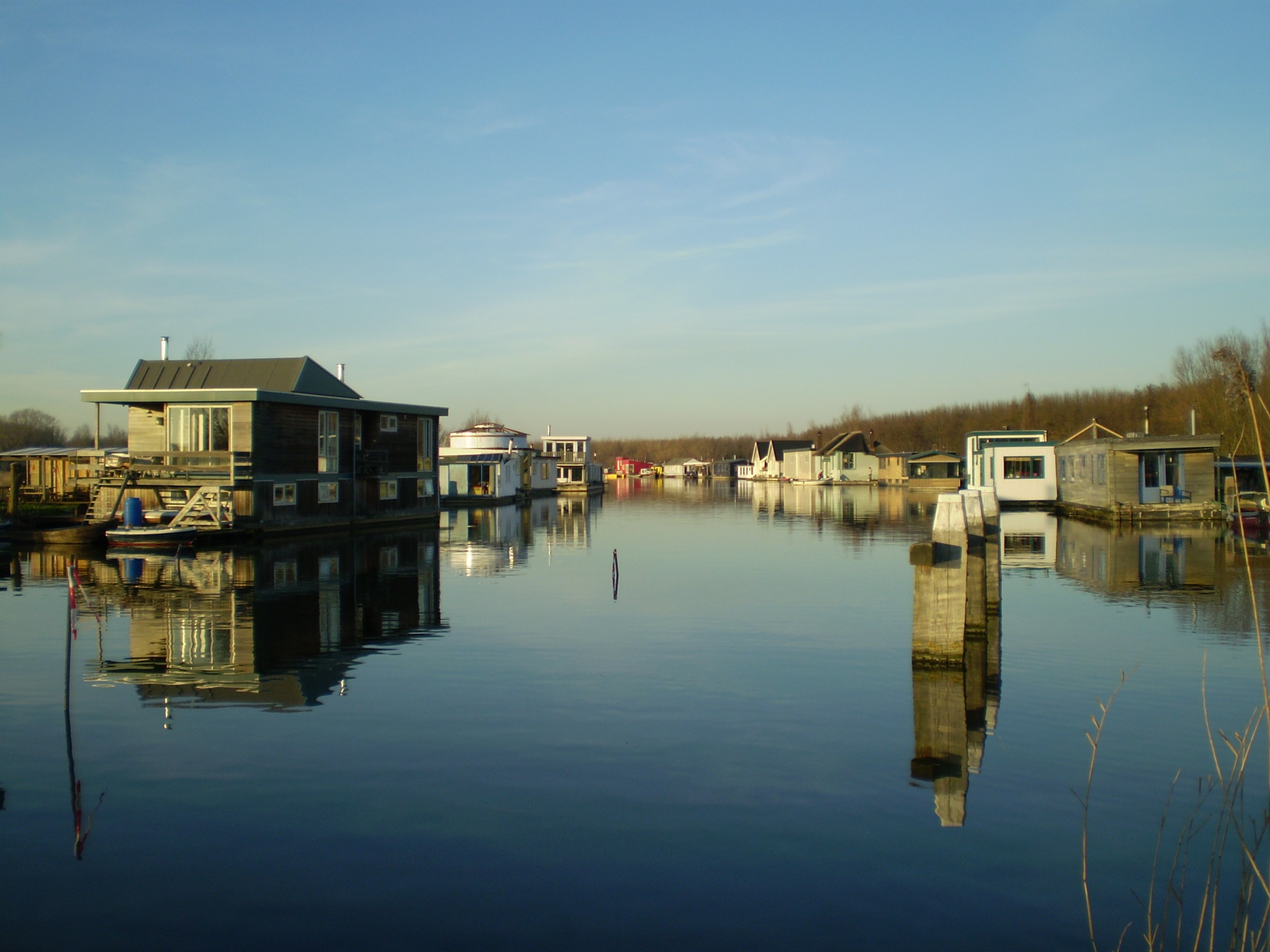 Houseboats, side canal b, North Sea Canal, Netherlands